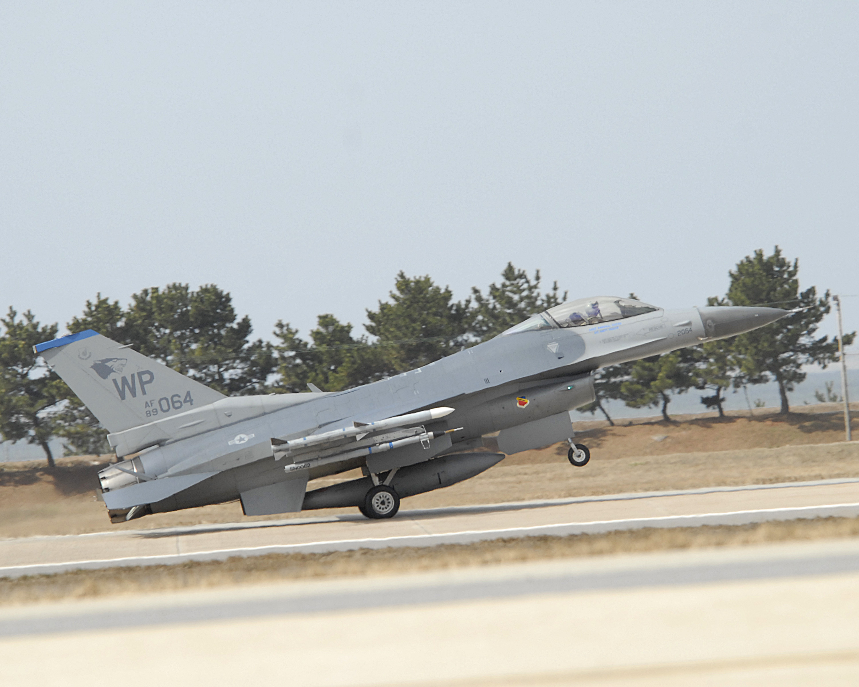 KUNSAN AIR BASE, Republic of Korea--An F-16 Fighting Falcon takes off here at Kunsan AB, ROK. The 8th Fighter Wing tested its flying and maintenance operations during surge operations here May 17. The purpose of the surge operation was to test the skills and wartime capabilities of the operators, maintainers and supporting agencies of the Wolf Pack over a 14-hour window and to simulate pilots' wartime flying rates. A successfully generated flight is considered to be a single sortie. (U.S. Air Force photo/Staff Sgt Darnell Cannady)